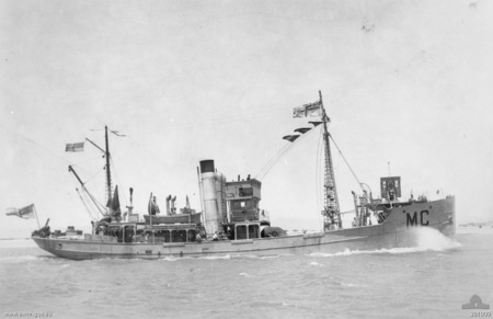 Port Adelaide, SA. 1944-02 Starboard Beam View of the auxilary minesweeeper HMAS Mary Cam